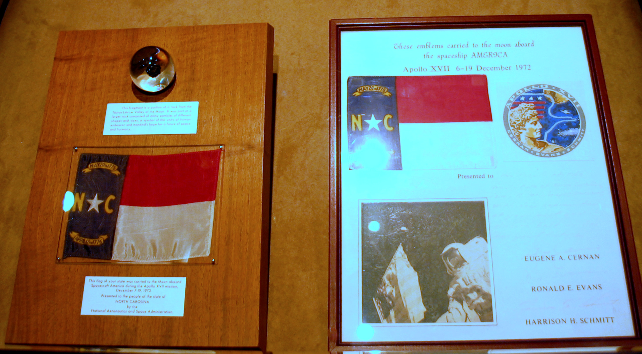 plaques containing lunar sample, flags, and mission patches returned from Apollo 17 and presented to the State of North Carolina by NASA